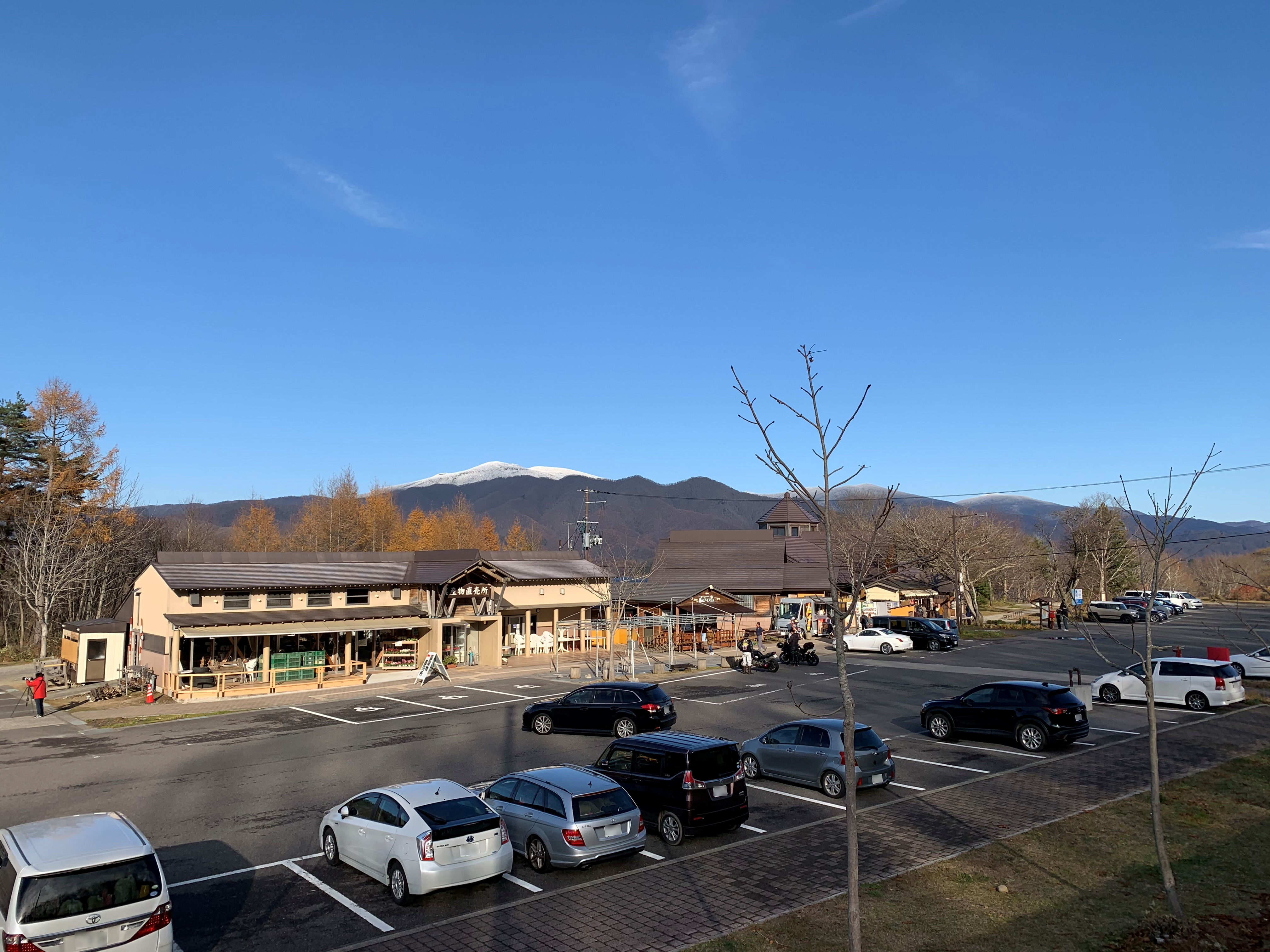 Urabandai, Michi no Eki (Roadside Station), Fukushima, Japan. Took photo in November 2019.